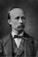 Norwegian politician Evald Rygh, who was Minister of Finance and Customs 1889–1891, Member of Parliament 1892-94 and mayor of Kristiania 1893-94.